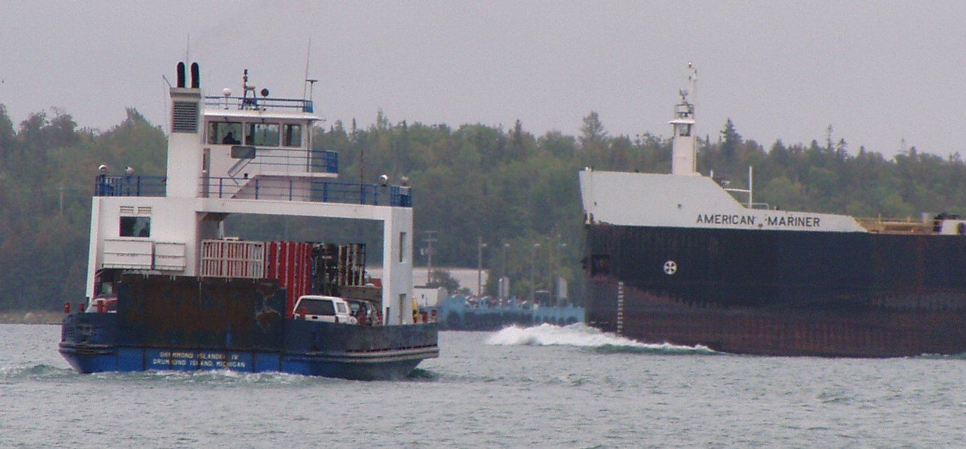 SS Drummond Islander IV, the ferry from De Tour Village to Drummund Island meets the lake freighter, American Mariner at the eastern end of the Upper Peninsula of Michigan